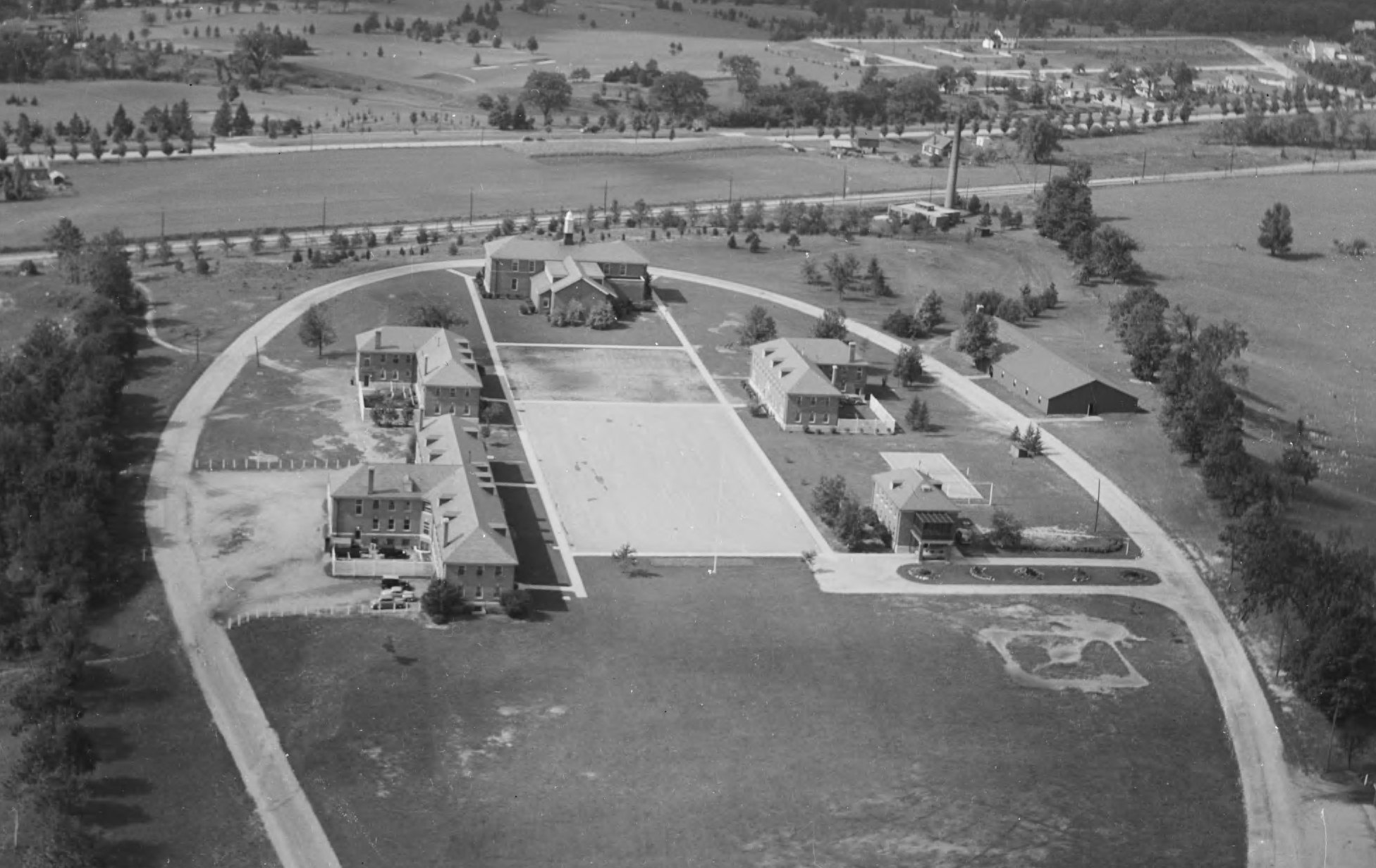 Photo appeared on Page 15 of the Saturday, November 28, 1953 edition of the Kitchener-Waterloo Record as part of the article: "Problem Girls Just Girls With Problems." Photo caption from published version of photo: "$2,000,000 INSTITUTION - The 72-acre school was erected for $2,000,000 and costs $250,000 yearly to operate. At the top of the circular drive is the administration building and auditorium. At left are residences, Drake, Nelson and Collingwood. At right is Beatty and the infirmary. At the extreme top right is the powerhouse, and the long, low building is the skating rink. During the war, when it was known as HMCS Conestogo, 6,000 Wrens trained there."